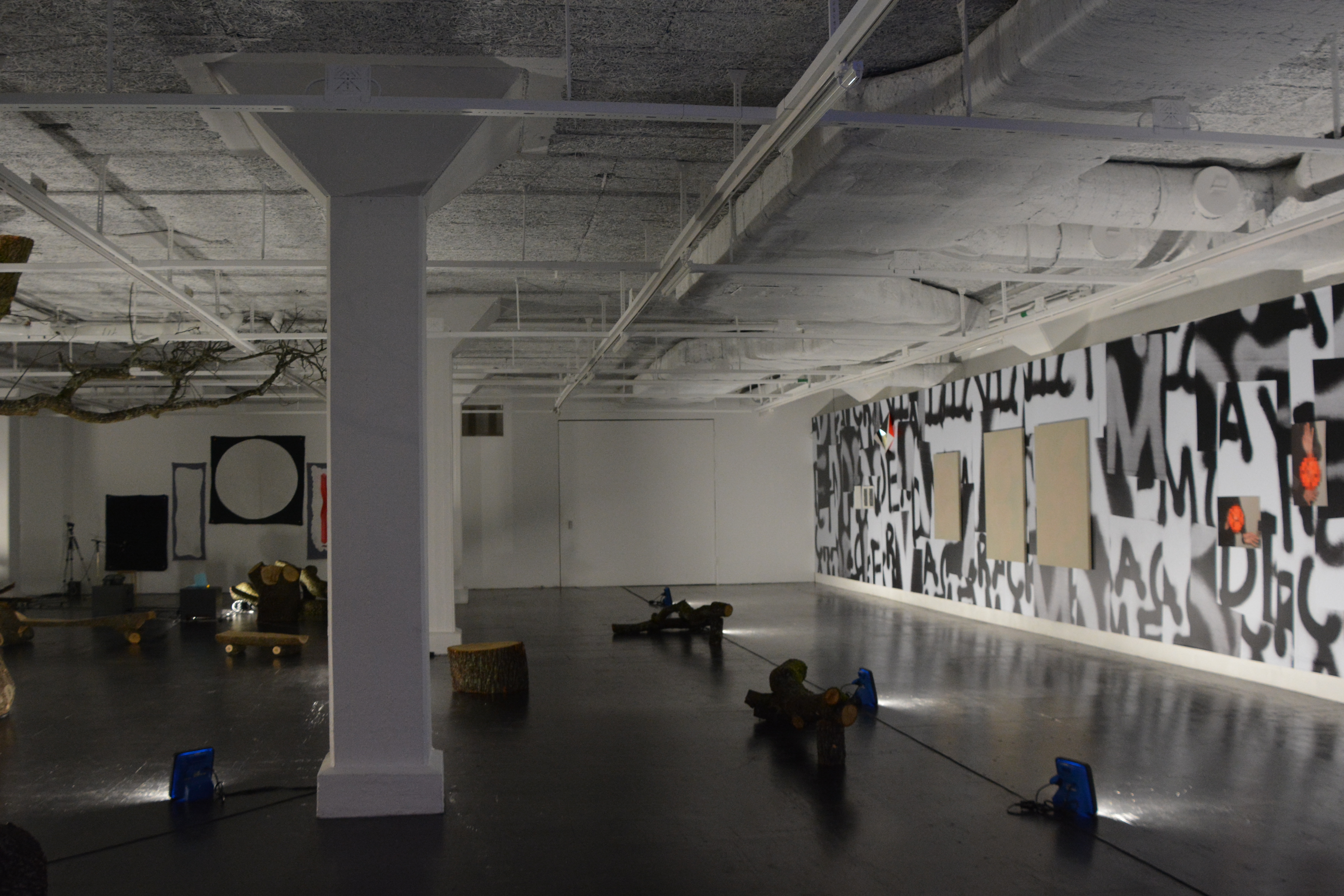 Tensta konsthall